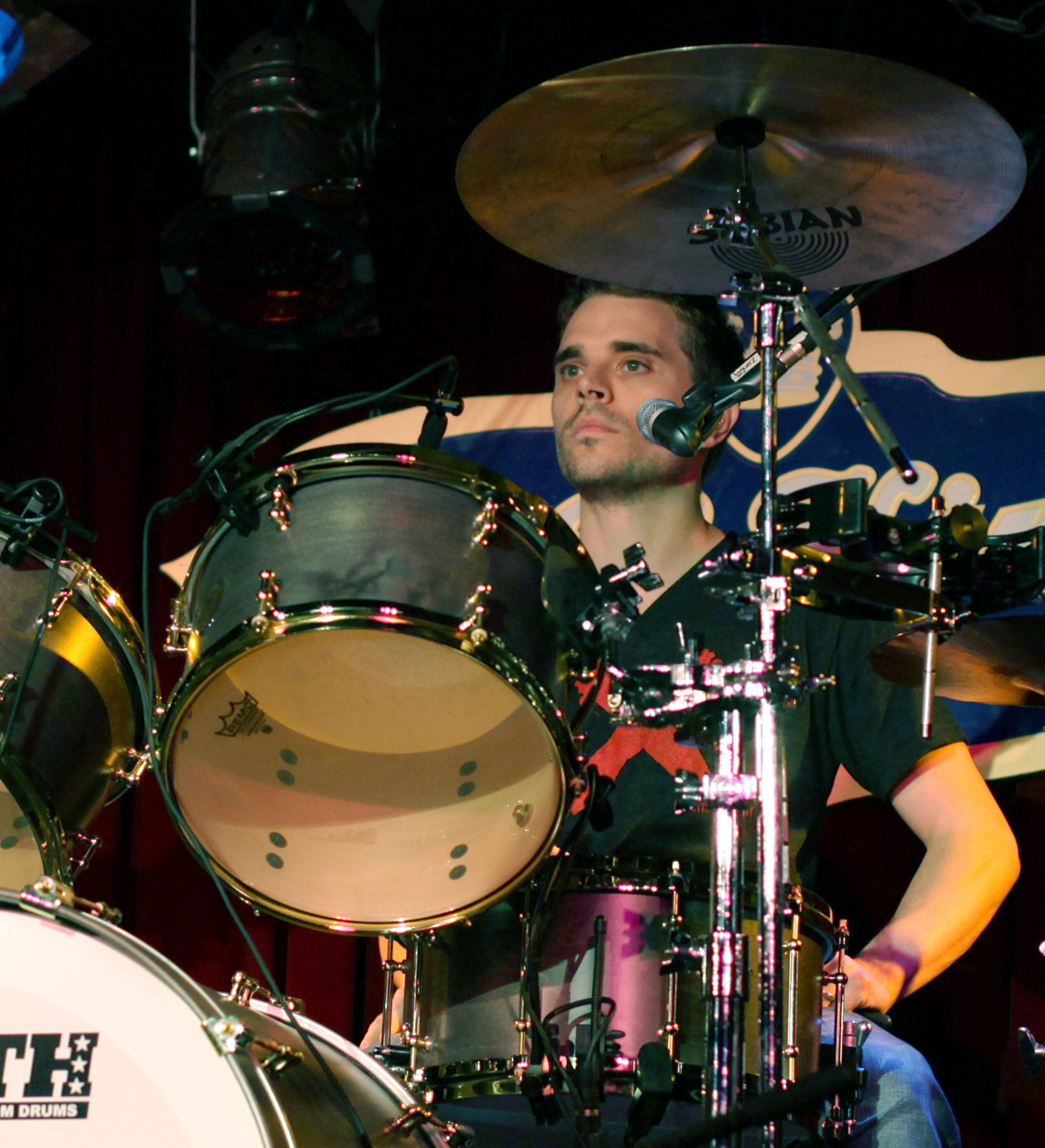 Jackson in 2013, playing at BB Kings in NYC.